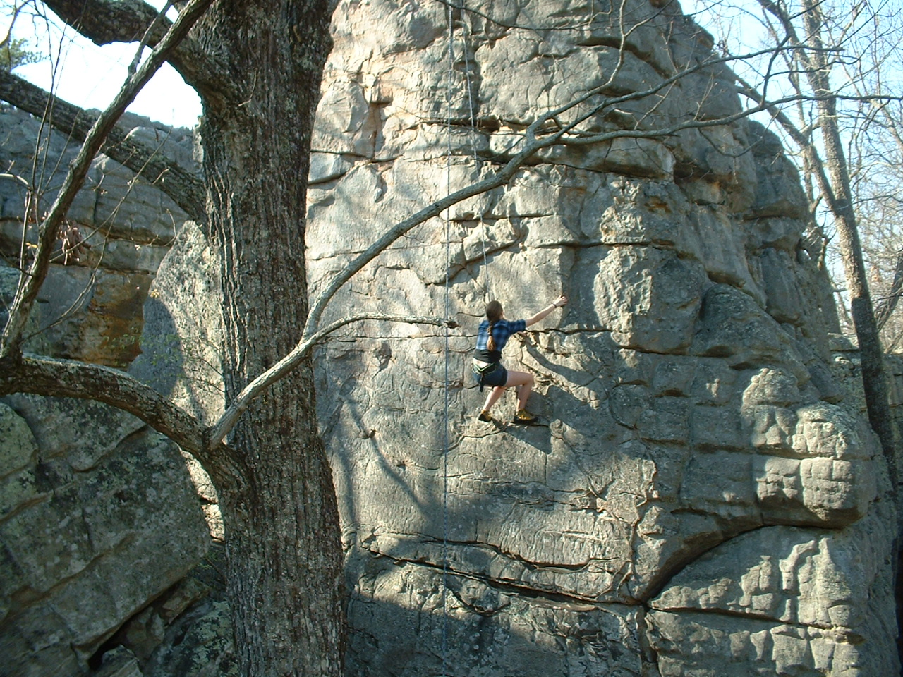 A young rock climber climbs a wall using a top-rope safety rig at Rocktown, GA USA